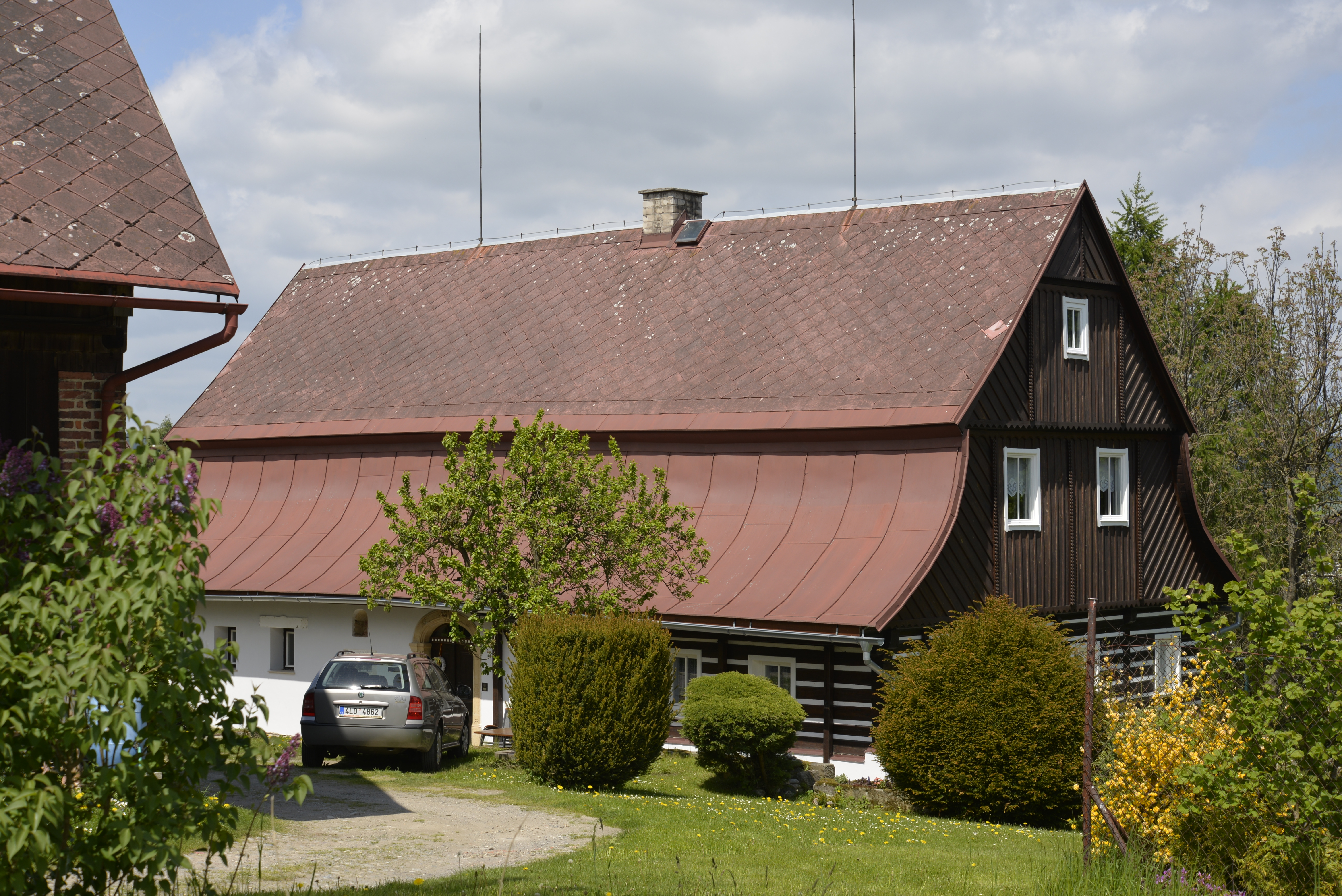 House No. 14, Vrát 14, Vrát.